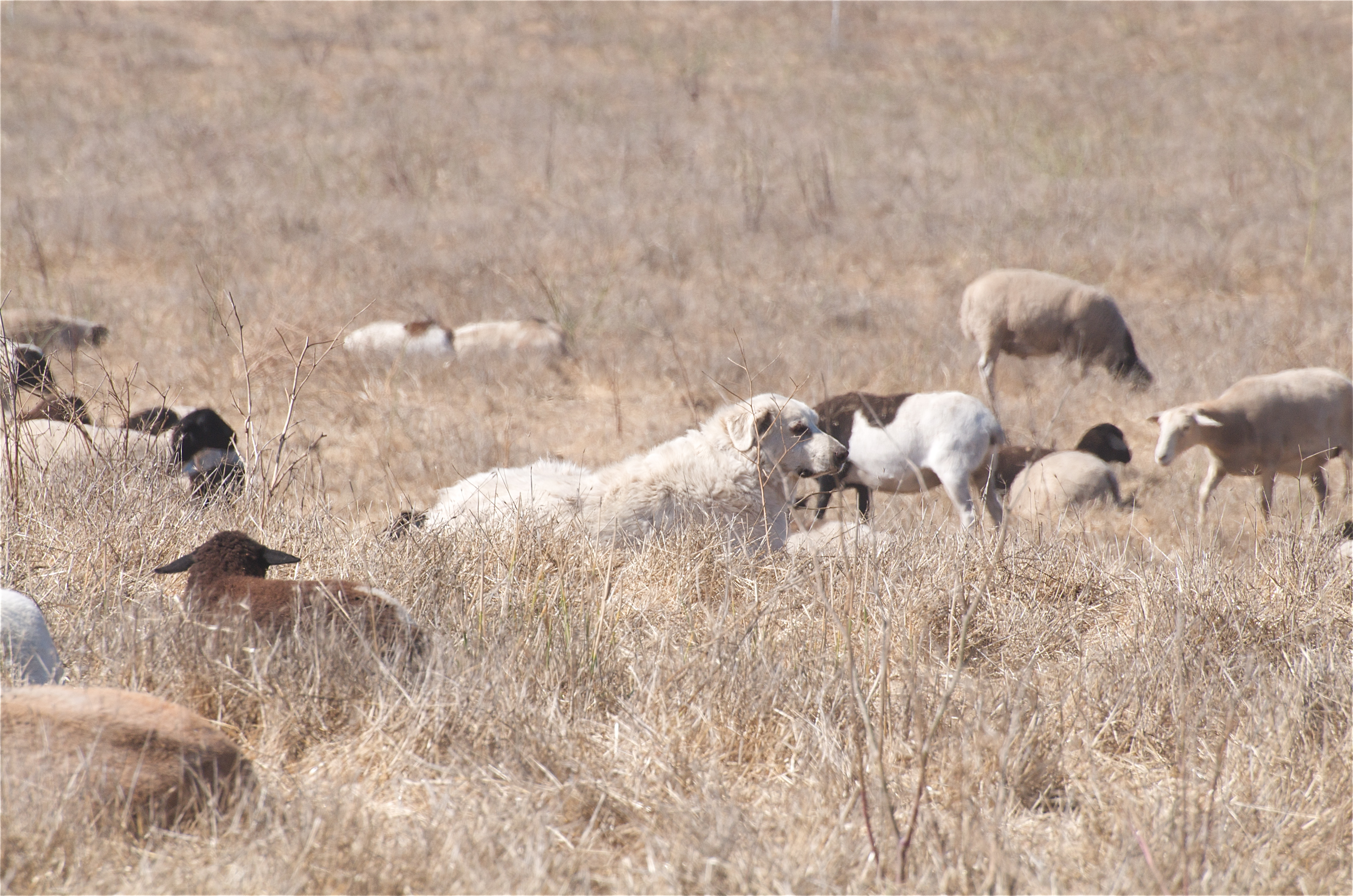 An Akbash dog guards a flock of sheep in California.